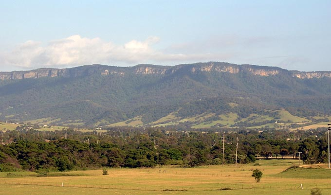 THis photograph was taken by myself DJ Willis on 11/2/06 - I donate it to the public domain and release all rights.